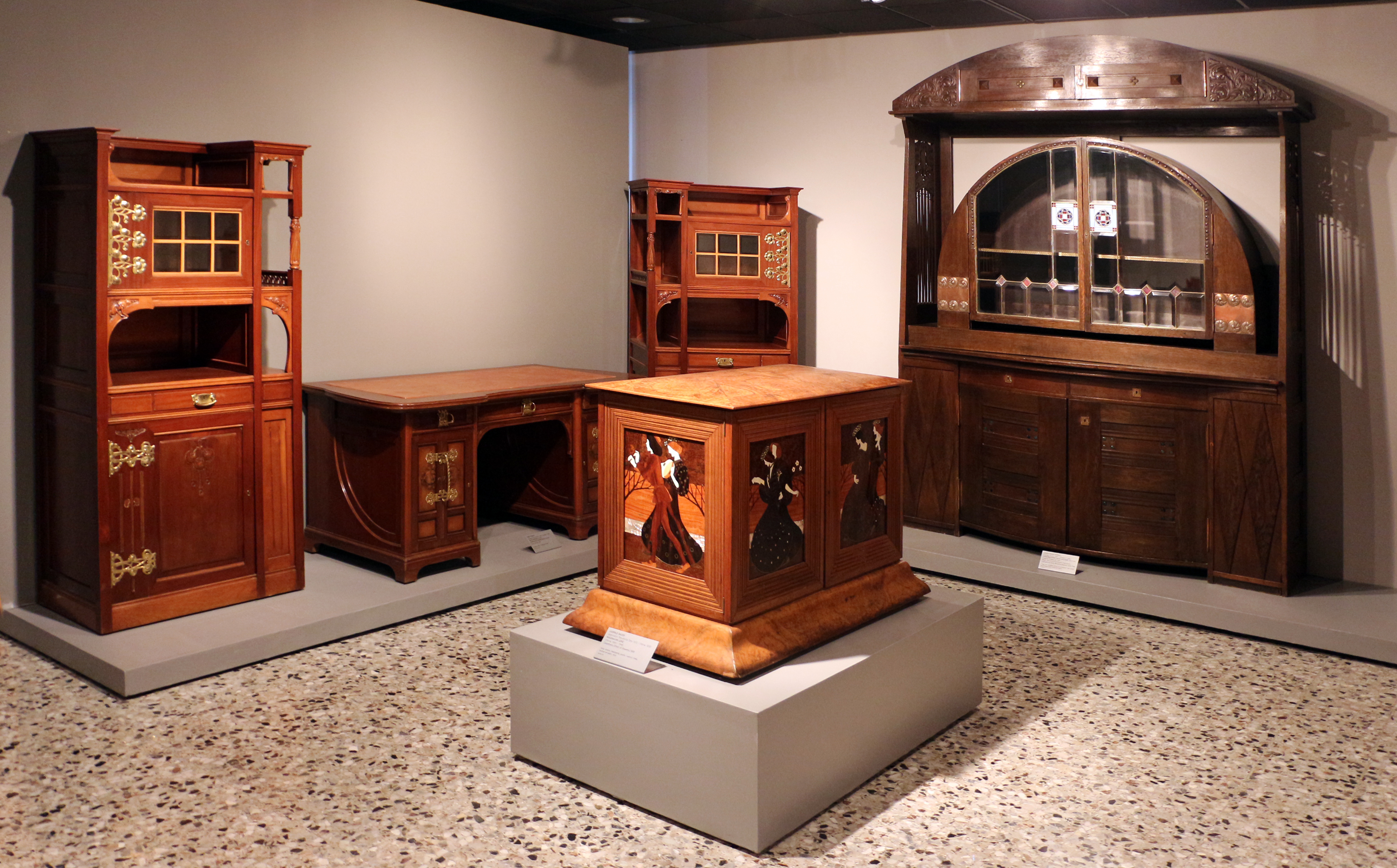 Wolfsoniana